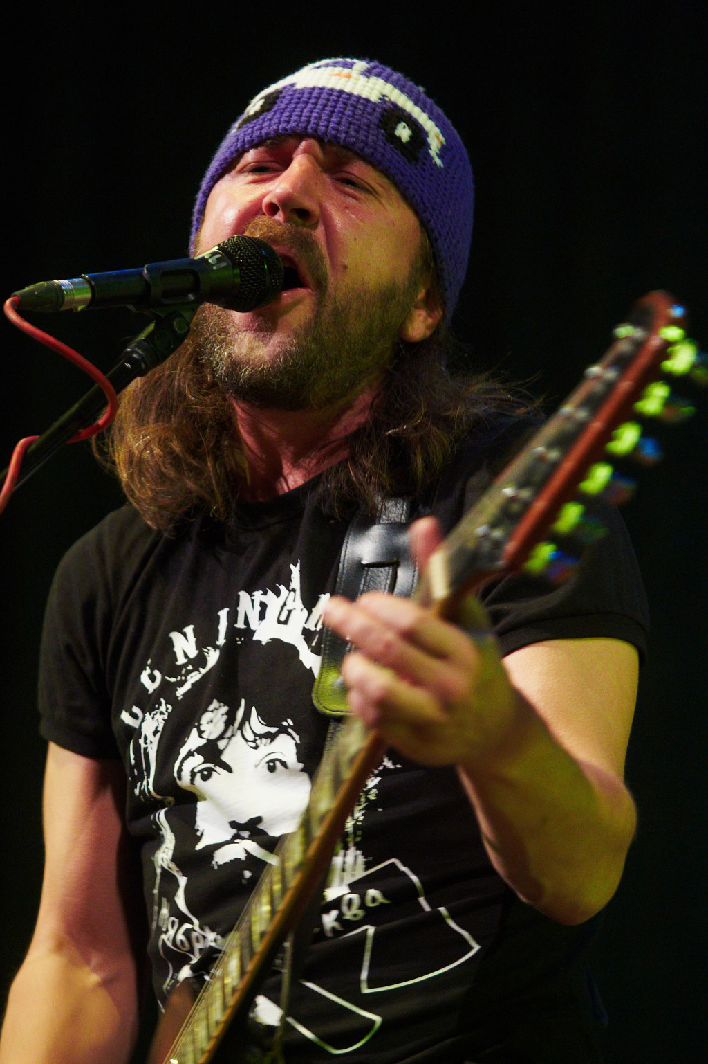 Sergey Shnurov - band Rubl